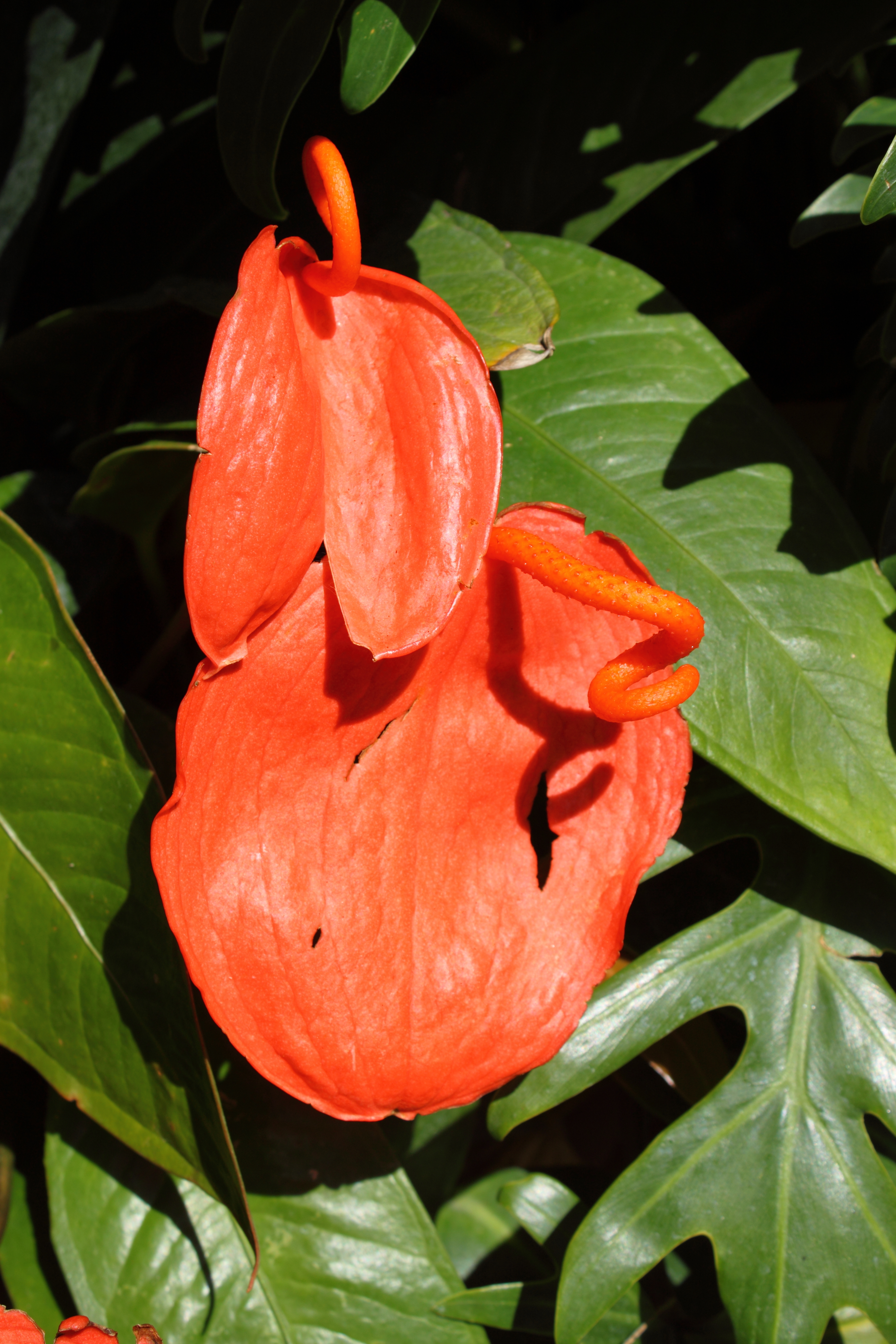 A Anthurium scherzerianum en flower inside the Balboa Park Botanical Building in San Diego, California.